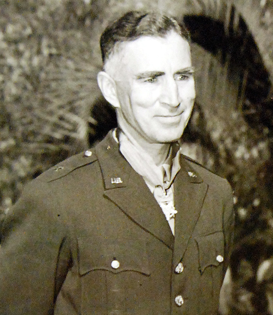 Lot 11568-12: Casablanca Conference, French Morocco, 14-24 January 1943. Brigadier General William H. Wilbur, upon whom the President Franklin D. Roosevelt had just affixed the Medal of Honor for gallantry in making contact with the French that led them to cease firing on the Americans who had landed in North Africa. Office of War Information Photograph. (2016/01/29).